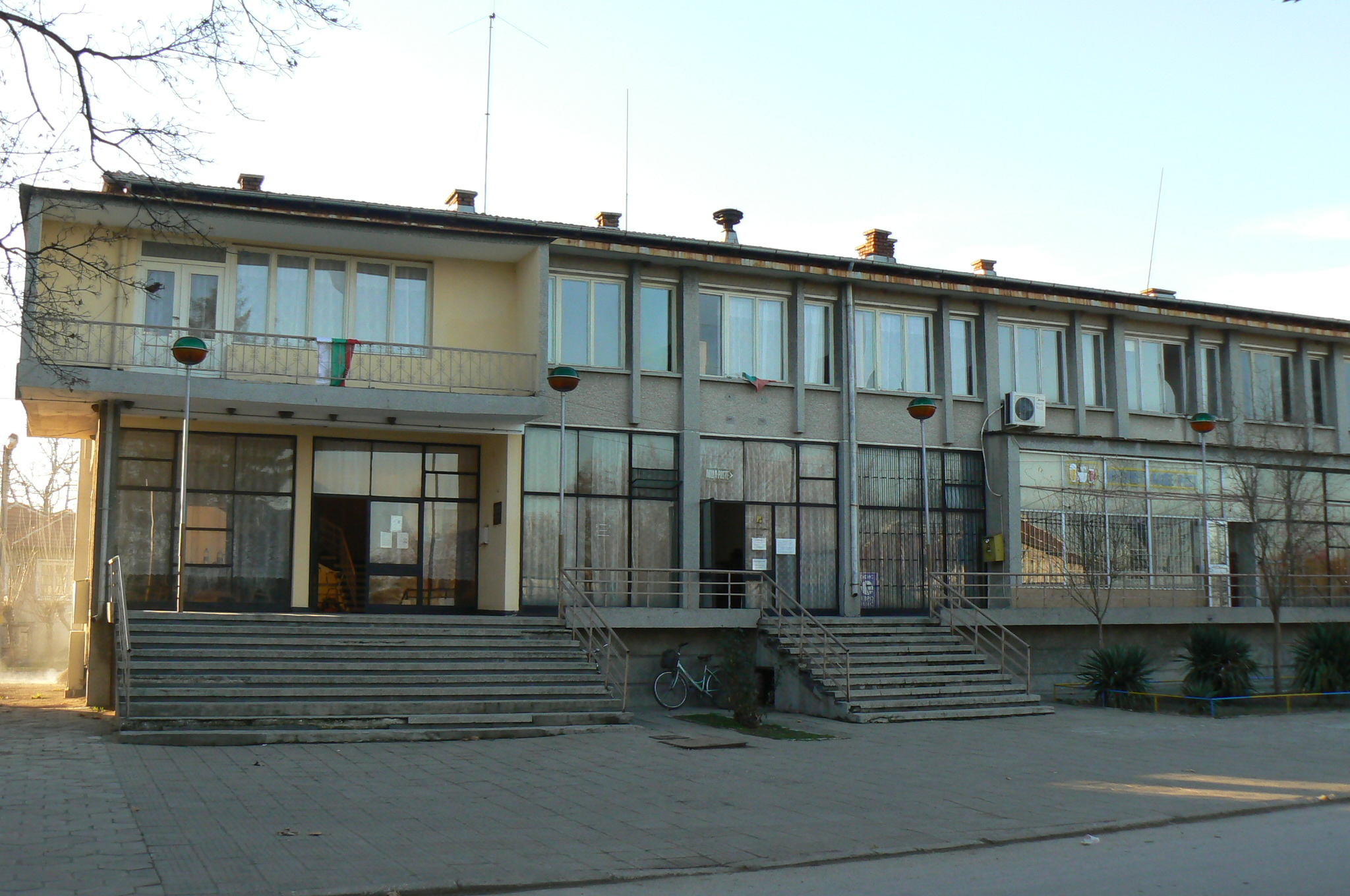 The mayors office of village Orizovo, Bulgaria